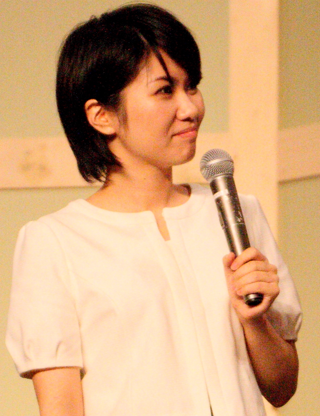 聞き手を担当された鈴木女流二段。Professional shogi player, Kanna Suzuki.